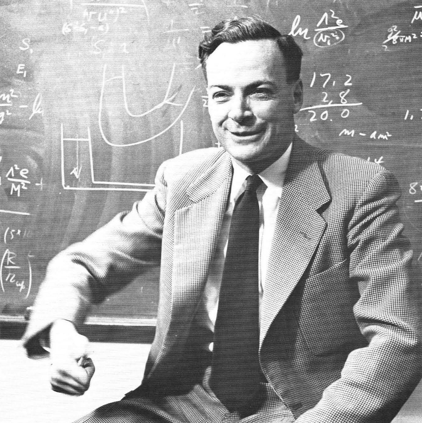 Richard Feynman in 1959